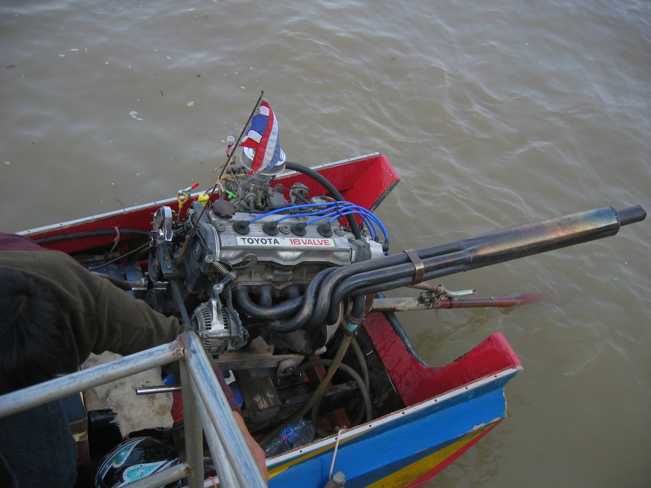 Long-tail boat, showing engine layout. Shot in Chang Rai, Thailand